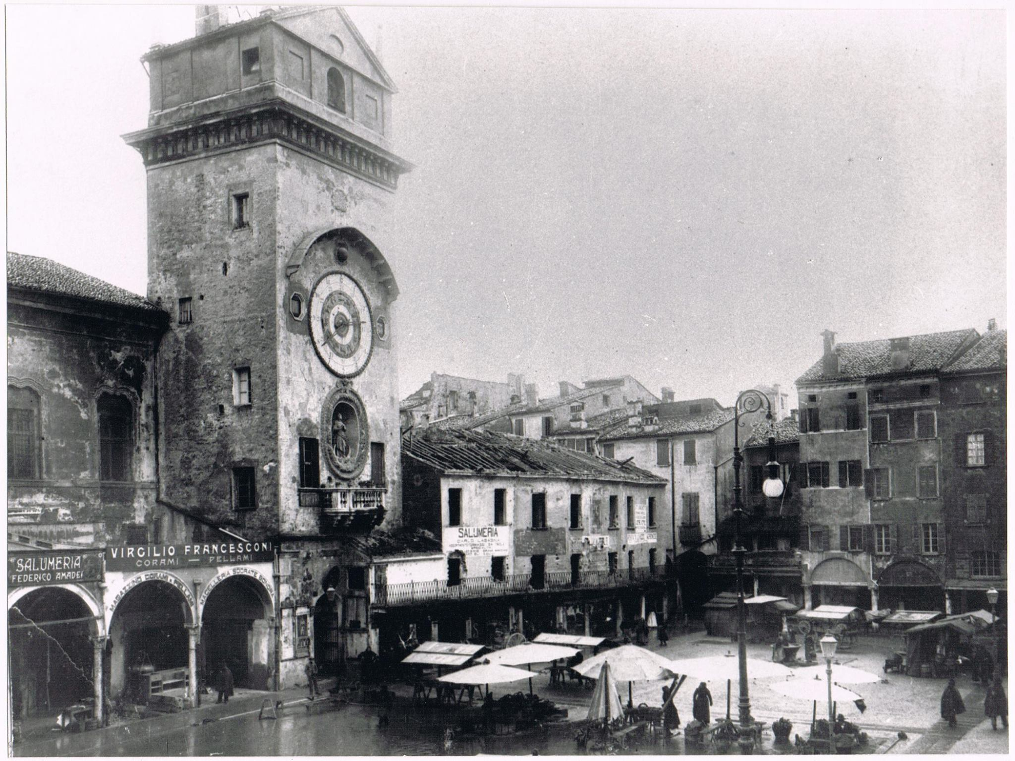 Mantua: Piazza delle Erbe. Buildings adjacent (on the right looking at the image) to the Palazzo della Ragione's Tower cover/hide Rotonda di San Lorenzo.